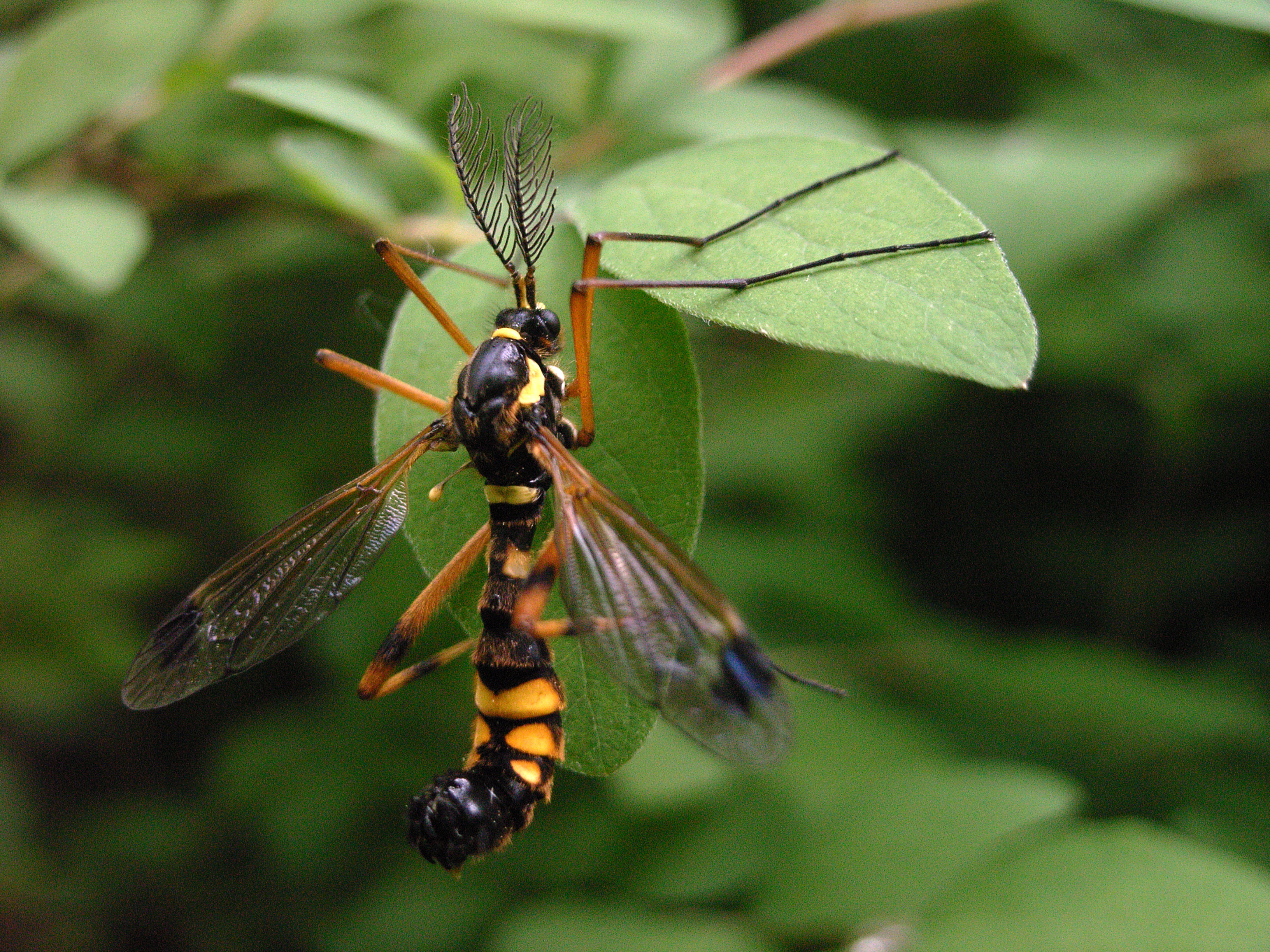 Unknown crane fly (Tipulidae), possibly Ctenophora flaveolata, found in Dorsten, Germany. Added: It's not Ctenophora flaveolata but a male of Ctenophora festiva. See Tipulidae at or Oosterbroek & Bygebjerg in Entomologische Berichten 66(5): 138-149 (2006).